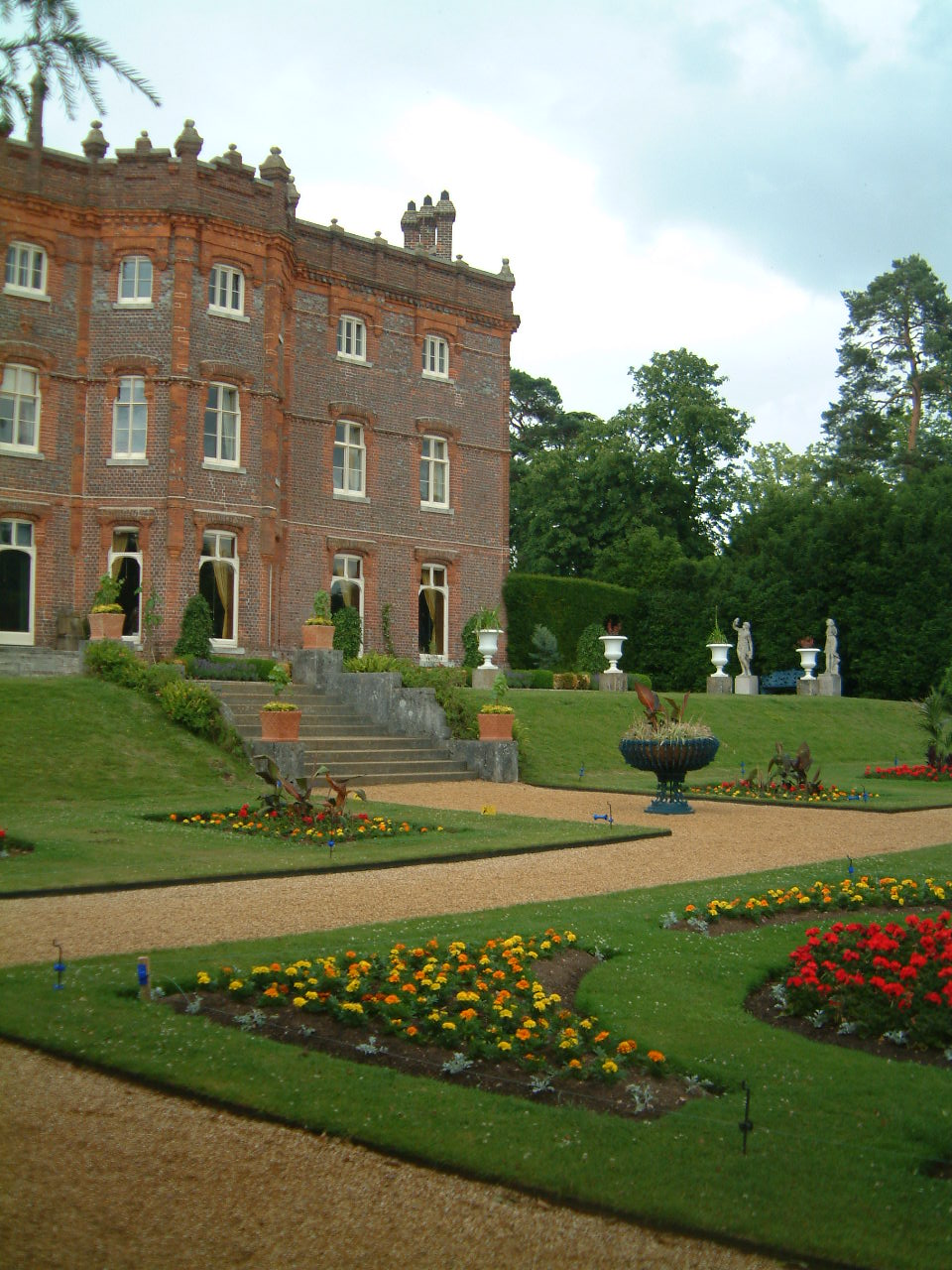 The rear of Hughenden Manor